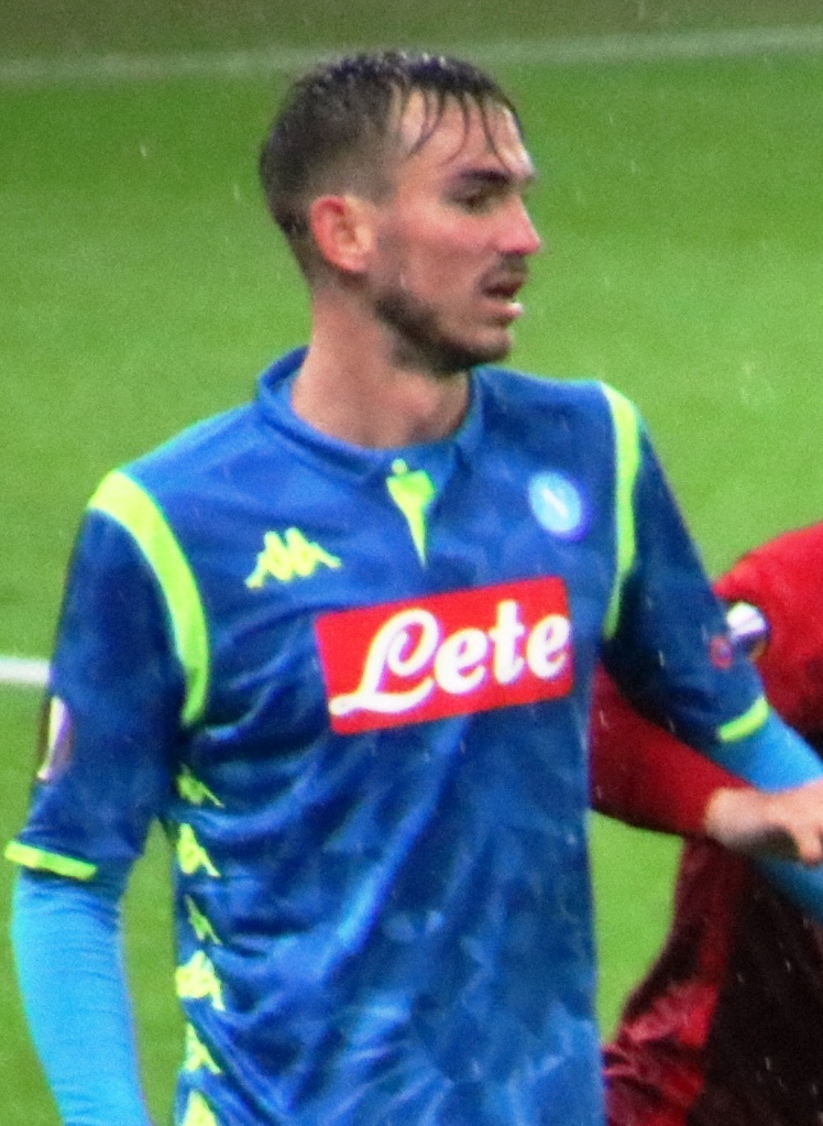 Euro League match round of 16 2nd leg